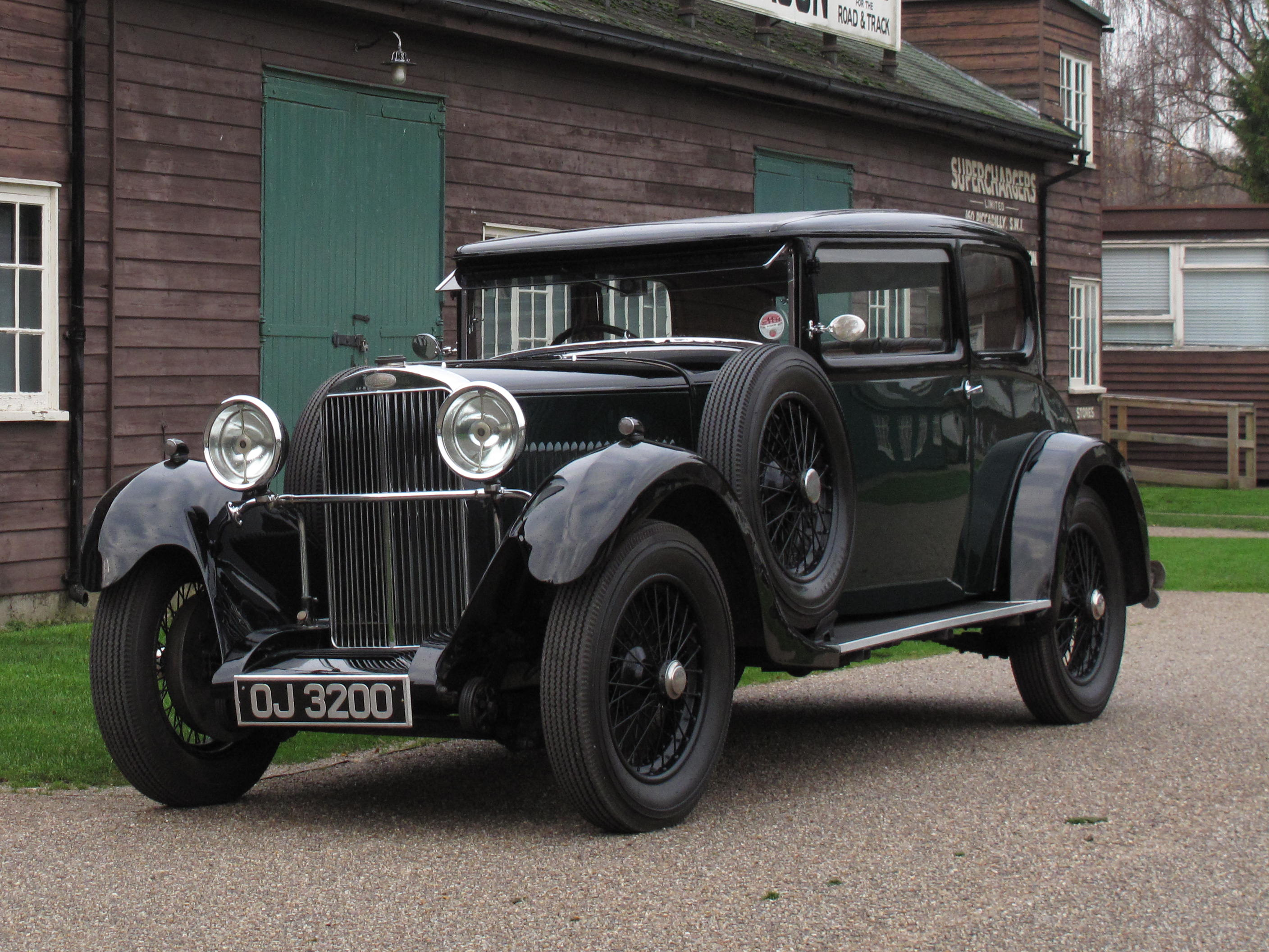 1932 Sunbeam 20 Doctor's Coupé or fixed head coupé (DVLA) first registered 23 September 1932, 3445 cc Brooklands Museum